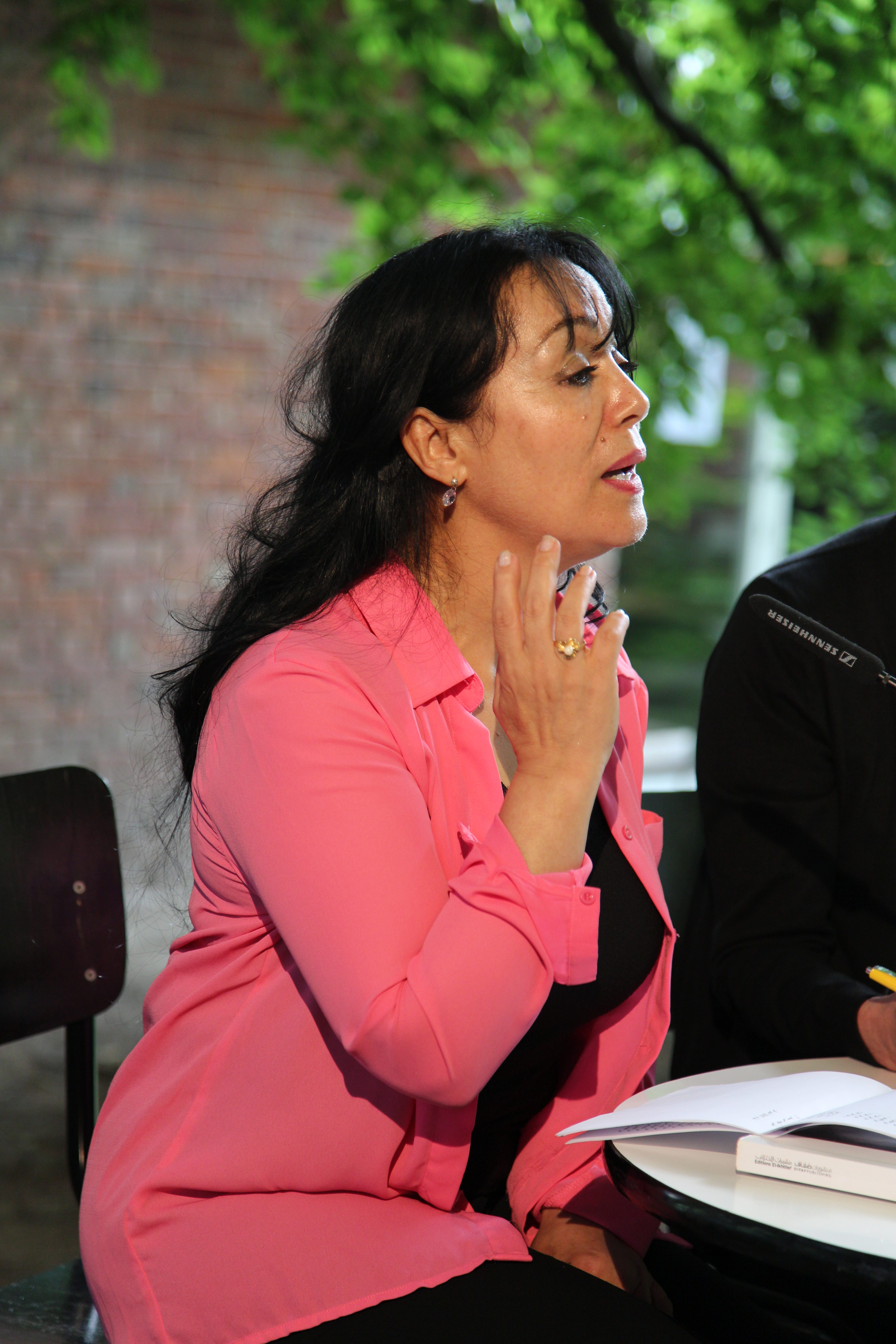 Rabia Djelti at the Lyrikmarkt 2017 in Berlin